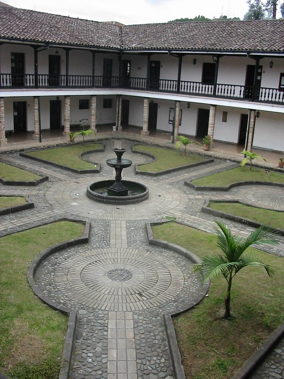 El Carmen Faculty of University of Cauca in Popayán-Colombia